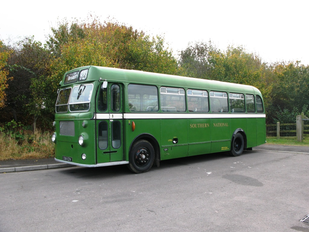 A preserved Bristol SUL4A with ECW body, Southern National 624 (338 EDV). It is seen at Bishops Lydeard during a charter working to the West Somerset Raillway.